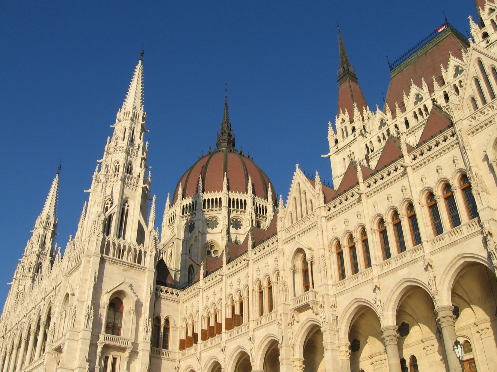 Houses of Parliament, Budapest